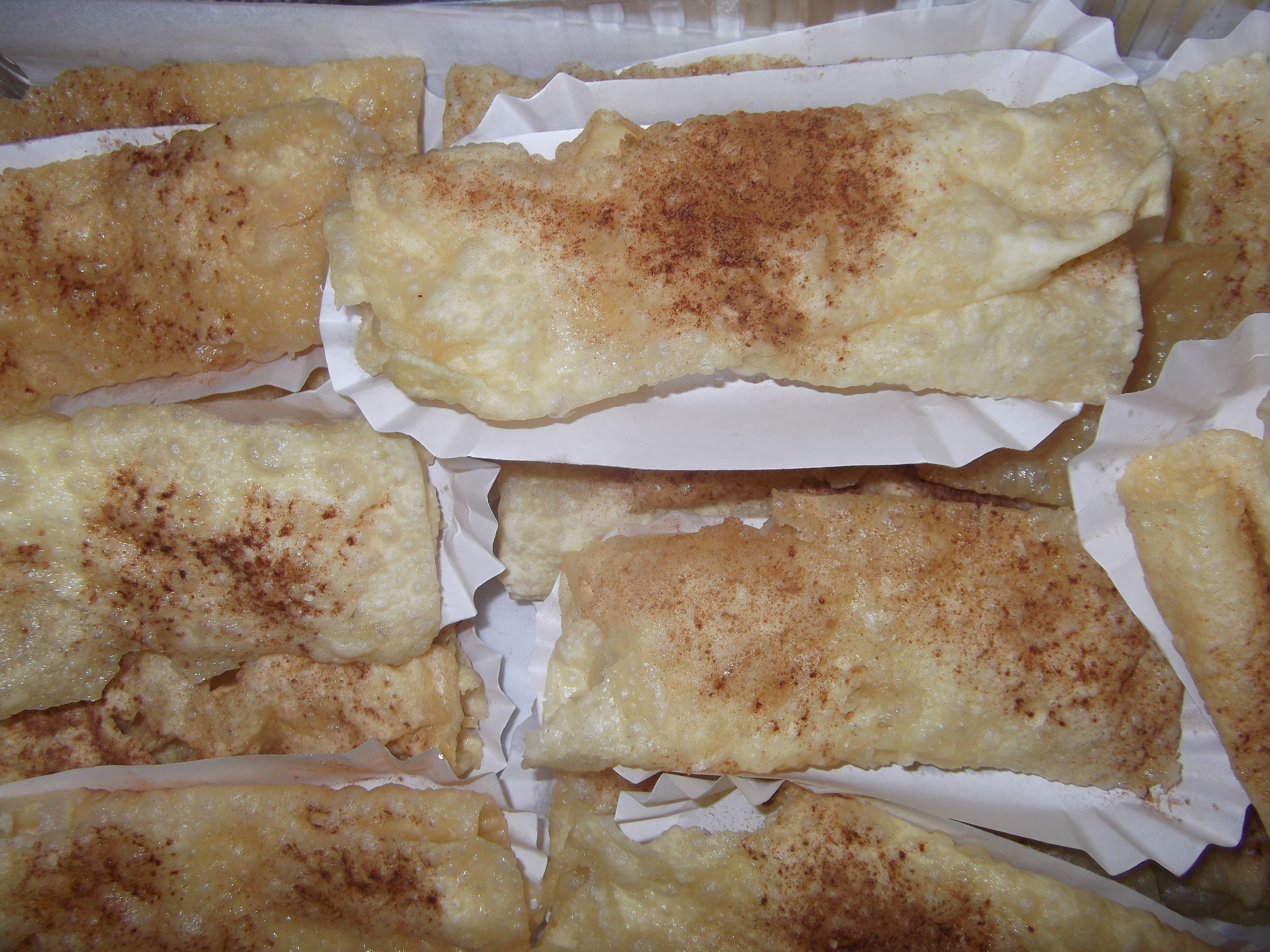 Diples at the 2011 Greek Festival in Piscataway, New Jersey CC-BY-3.0 Source: Self